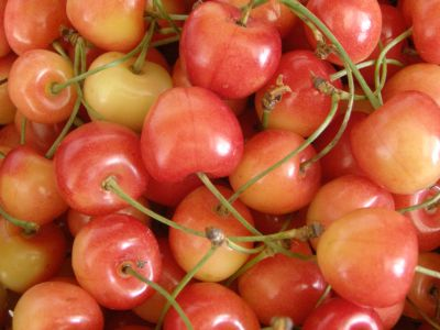 Fruit of Cerasus avium